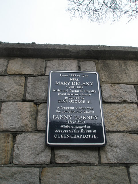 Plaque to a friend of royalty on Castle Hill